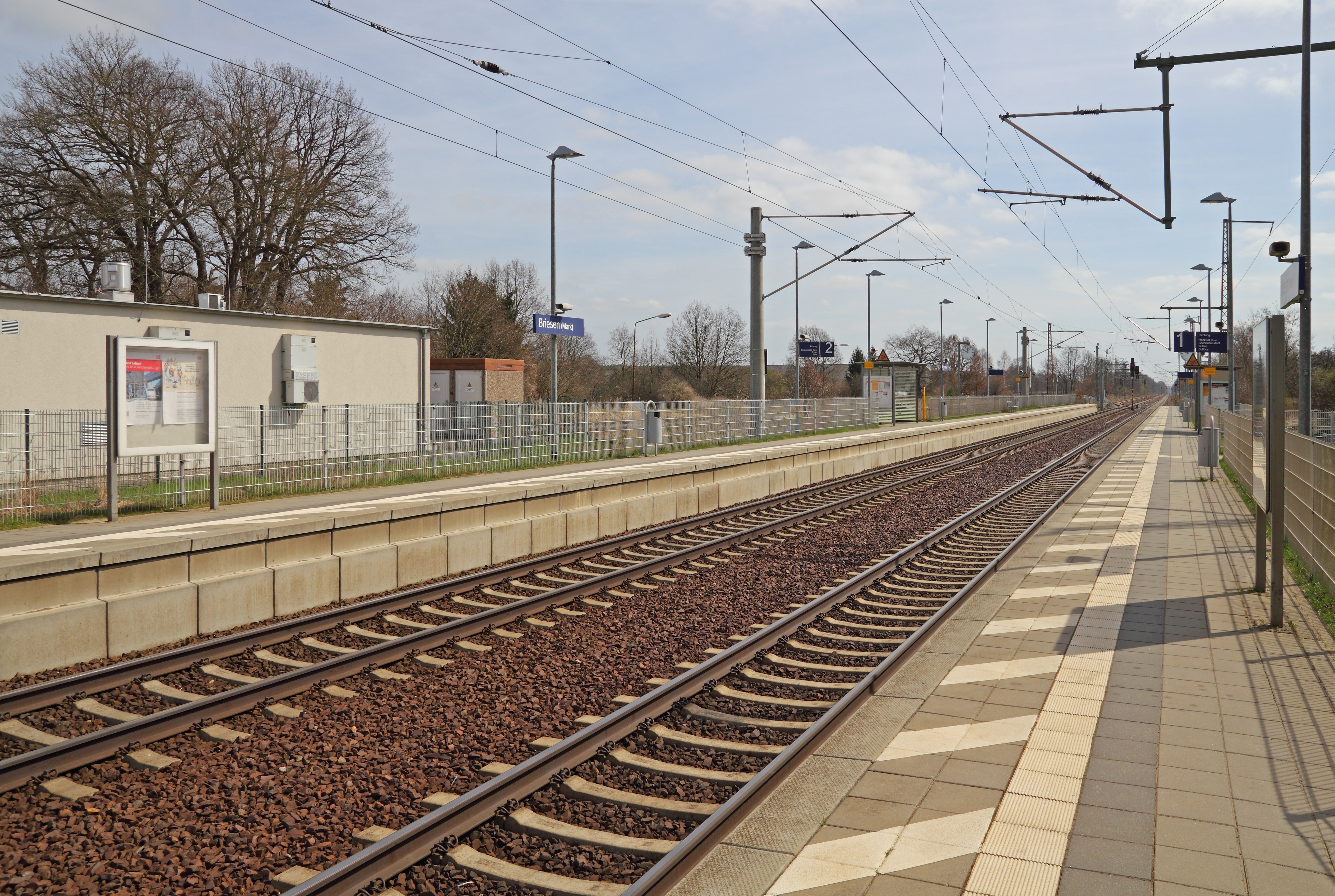 Train stop in Briesen (Mark), Brandenburg, Germany